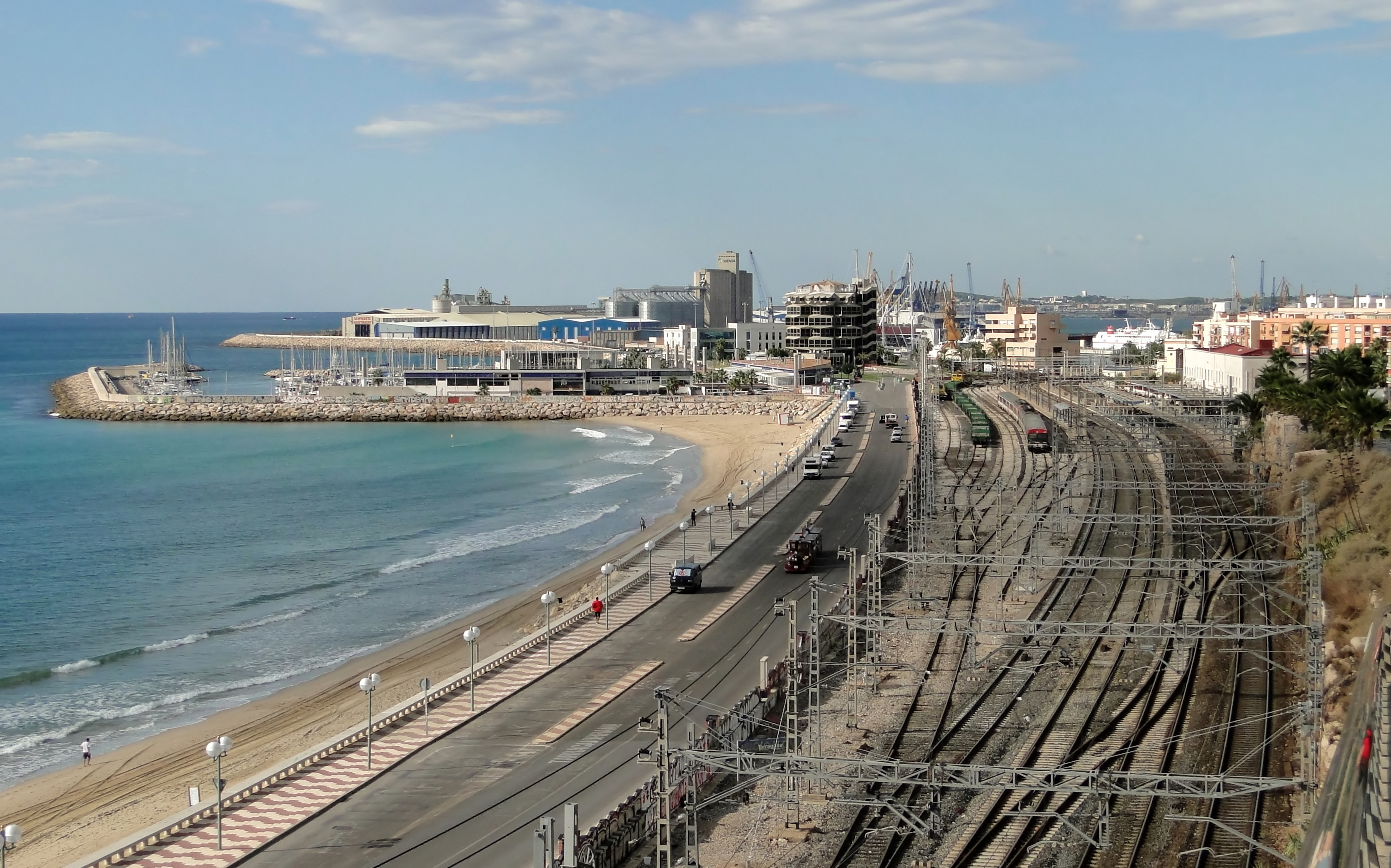 Port of Tarragona, Miracle Beach and the street Passeig Maritim Rafael de Casanova, Tarragona, Spain